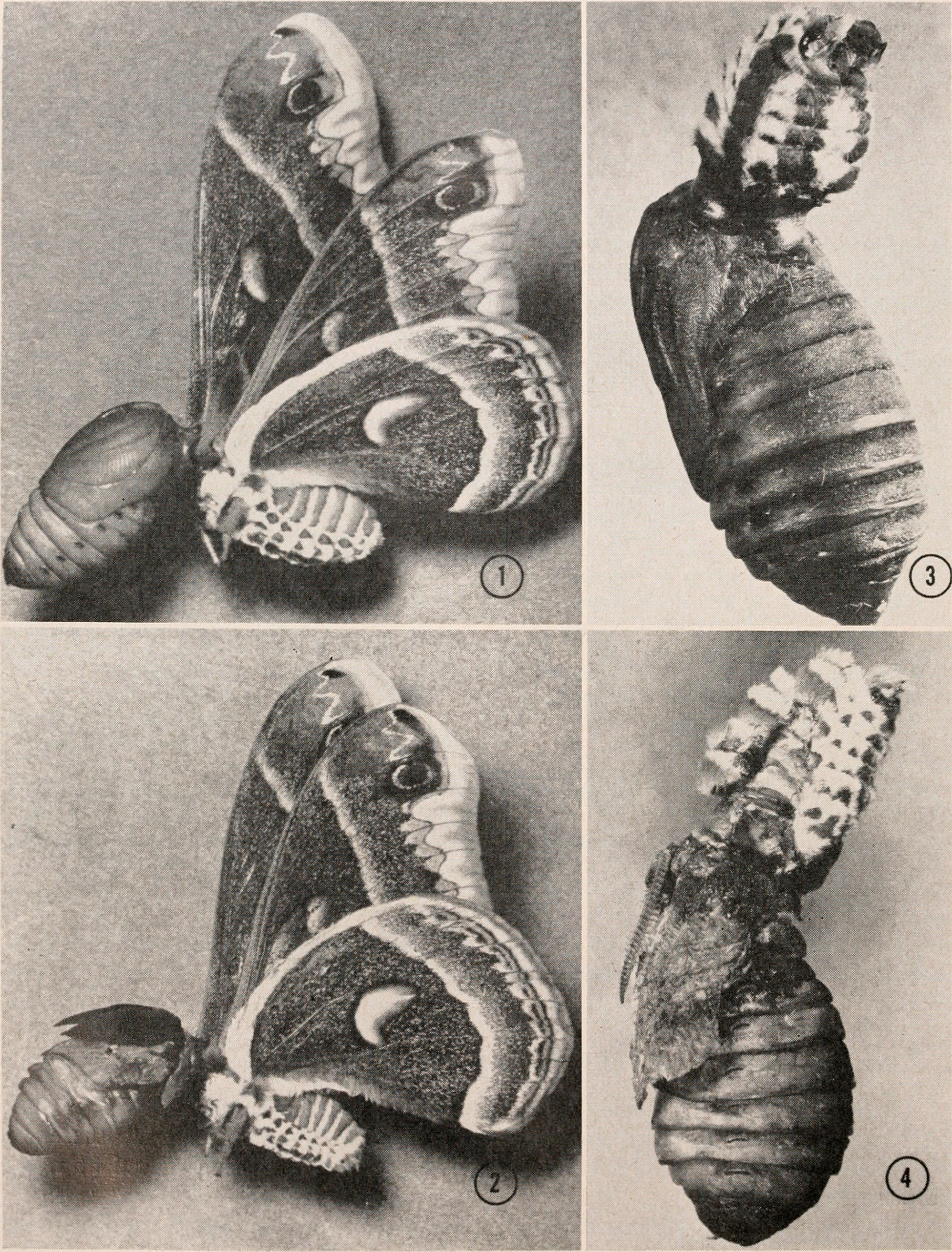 Title: The Biological bulletin Year: [1] (s) Authors: Marine Biological Laboratory (Woods Hole, Mass. ); Marine Biological Laboratory (Woods Hole, Mass. ). Annual report 1907/08-1952; Lillie, Frank Rattray, 1870-1947; Moore, Carl Richard, 1892-; Redfield, Alfred Clarence, 1890-1983 Subjects: Biology; Zoology; Biology; Marine Biology Publisher: Woods Hole, Mass. : Marine Biological Laboratory Text Appearing Before Image: 358 CARROLL M. WILLIAMS Text Appearing After Image: FIGURE 1. A headless male Cecropia moth is here joined in parabiosis with a previously chilled pupa of the Polyphemus silkworm. FIGURE 2. After three weeks at 25° C. the pupa has molted to form a second pupal stage showing only traces of adult characters. The old pupal cuticle has been removed. FIGURE 3. The abdomen of a male Cecropia moth is joined in parabiosis with a previously chilled Cecropia pupa. FIGURE 4. After three weeks at 25° C. the pupa has molted to form a second pupal stage showing only traces of adult characters. The old pupal cuticle has been removed. The adult abdomen has molted its adult cuticle which is here shown partially peeled away.